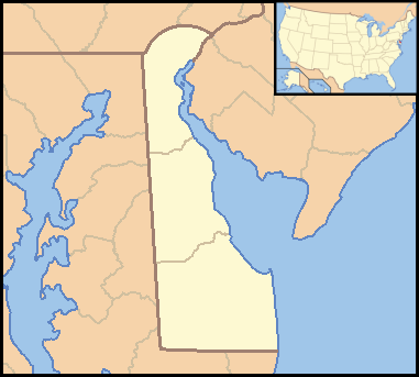 Locator Map of Delaware, United States